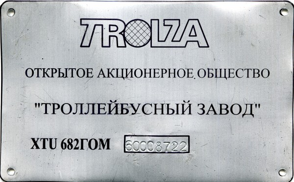 The factory plaque of ZiU-682 trolleybus, produced in 2006, with producer's logo